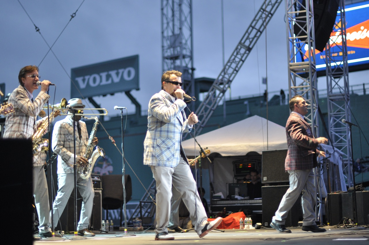 Mighty Mighty Bosstones play Fenway